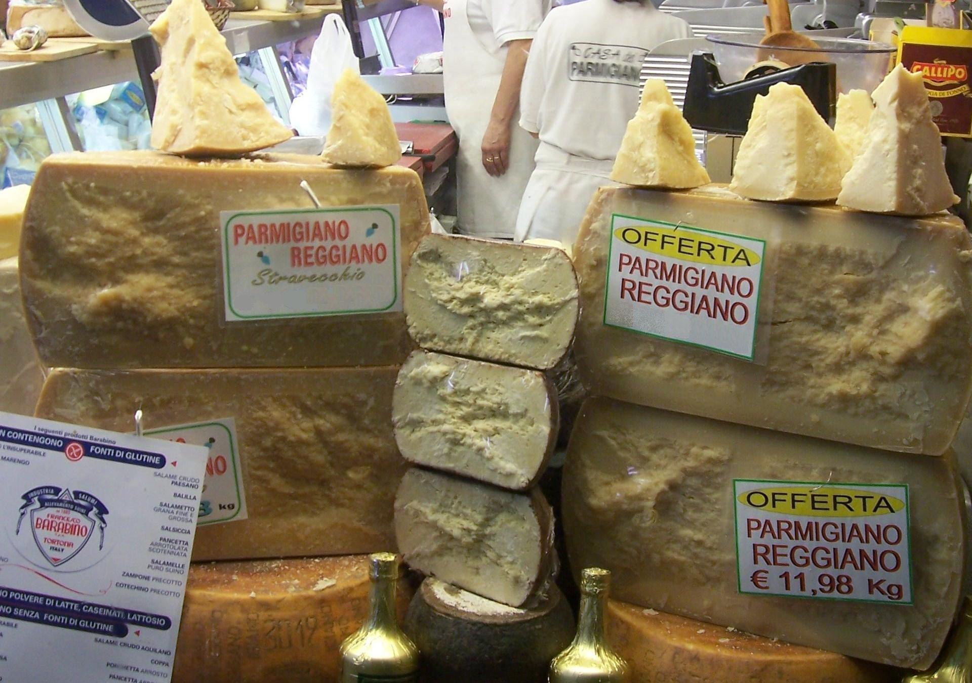 Parmigiano (shop in Genova)